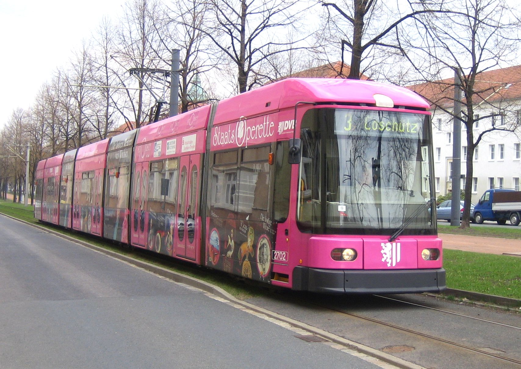 Low-floor tram NGT8DD of the Dresden Public Transport (car 2702) Line 3 to Dresden-Coschütz, at the stop Nöthnitzer Straße with advertising for the dresden state-operetta